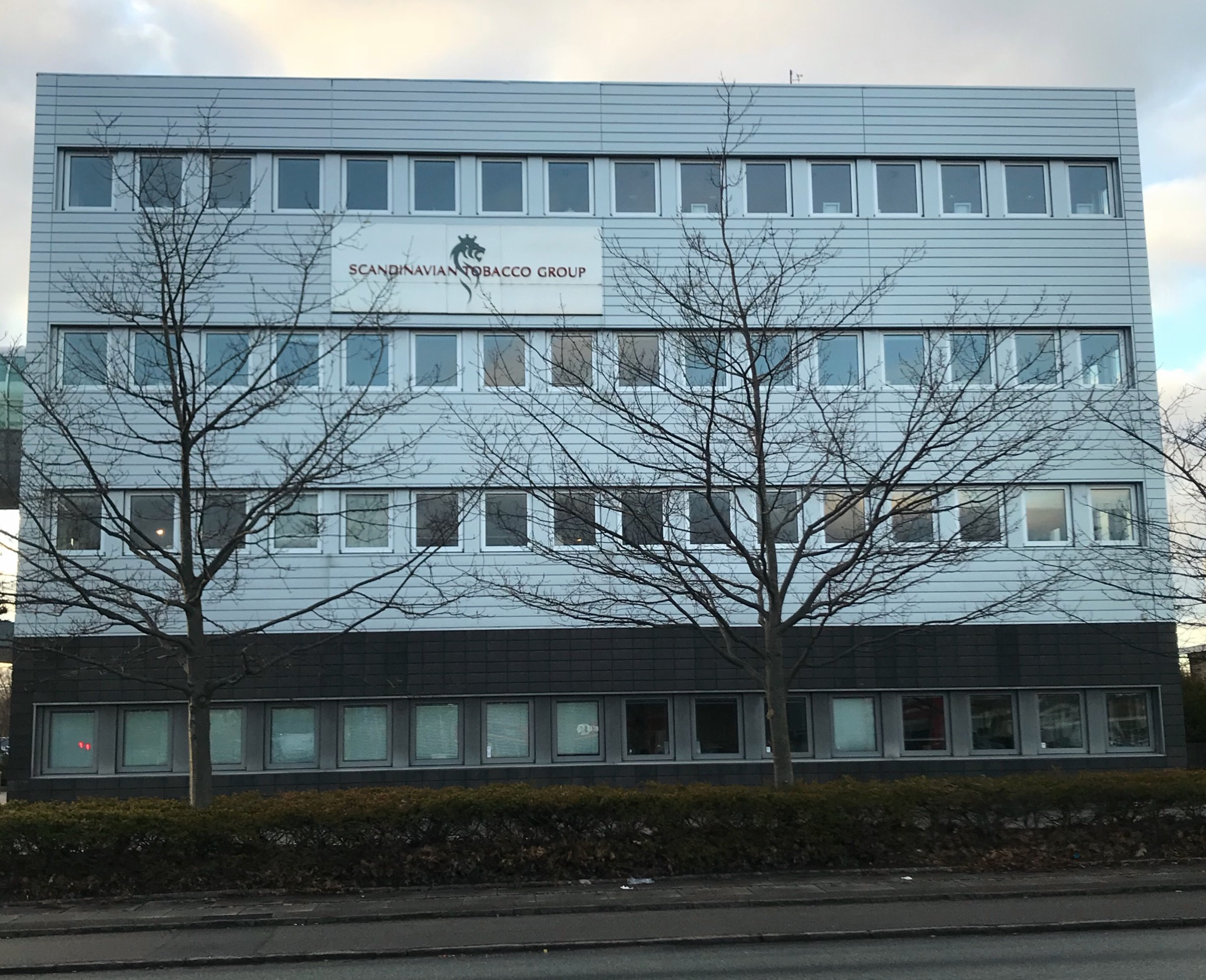 Headquarters of Scandinavian Tobacco Group in Søborg, Denmark